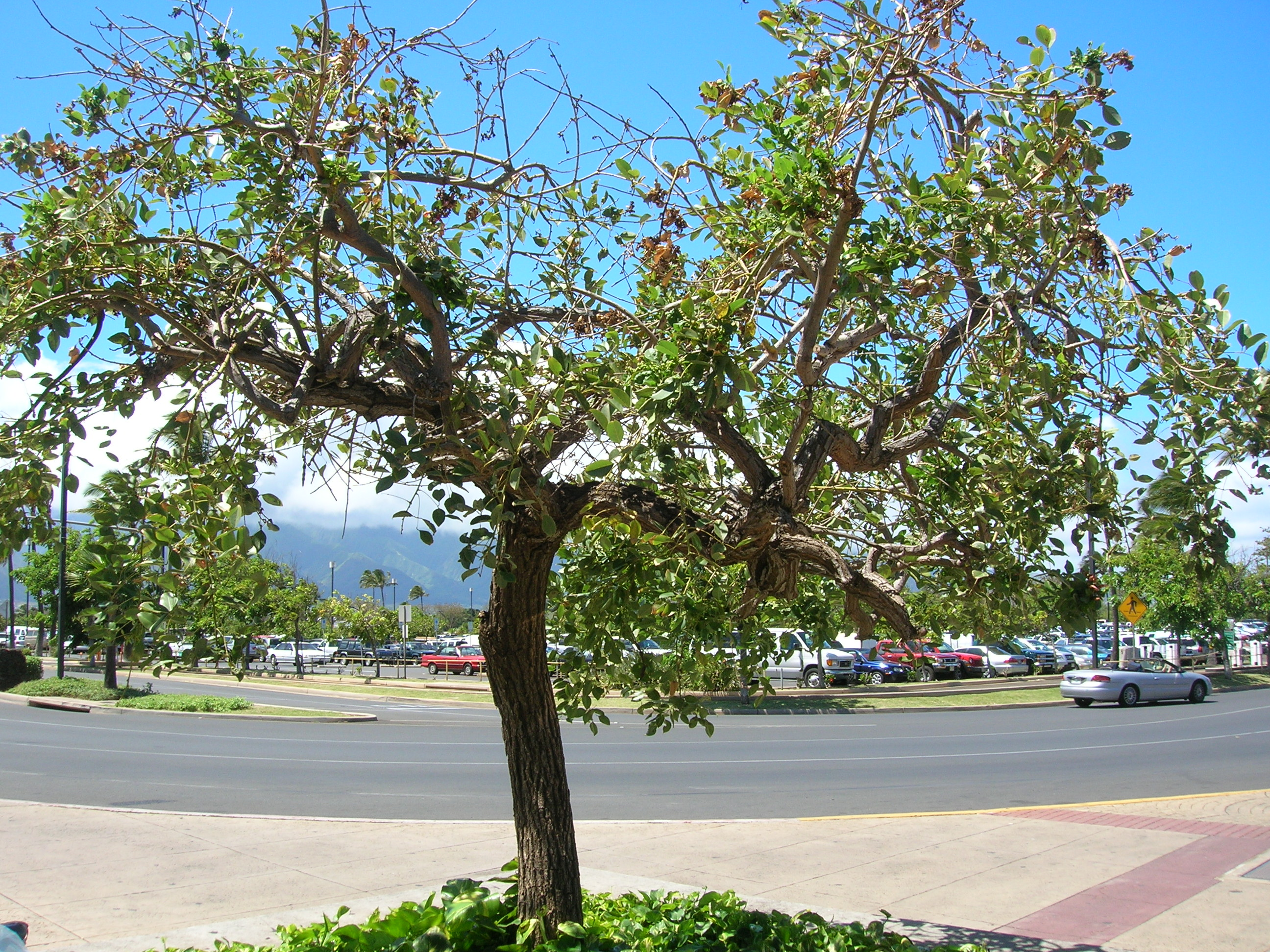 Erythrina crista-galli (habit). Location: Maui, Kahului Airport